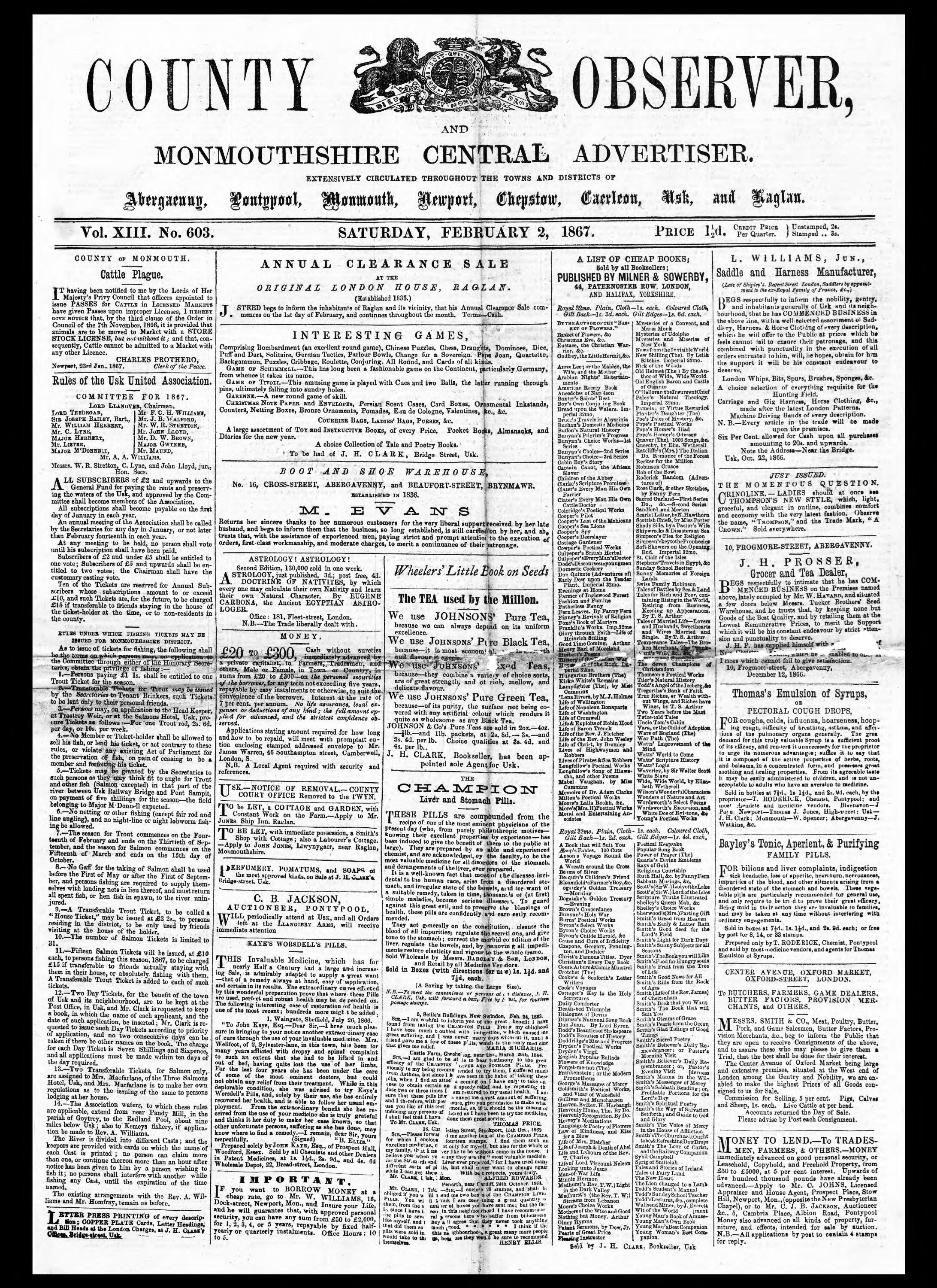 Front page of the earliest surviving copy of the Welsh newspaper County Observer and Monmouthshire Central Advertiser